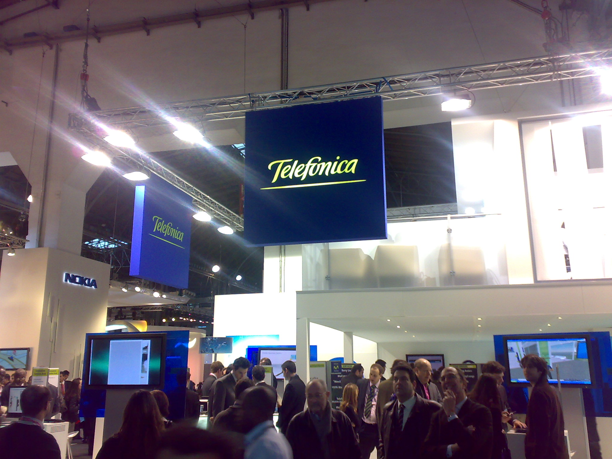 Telefonica stand at GSMA Barcelona 2008